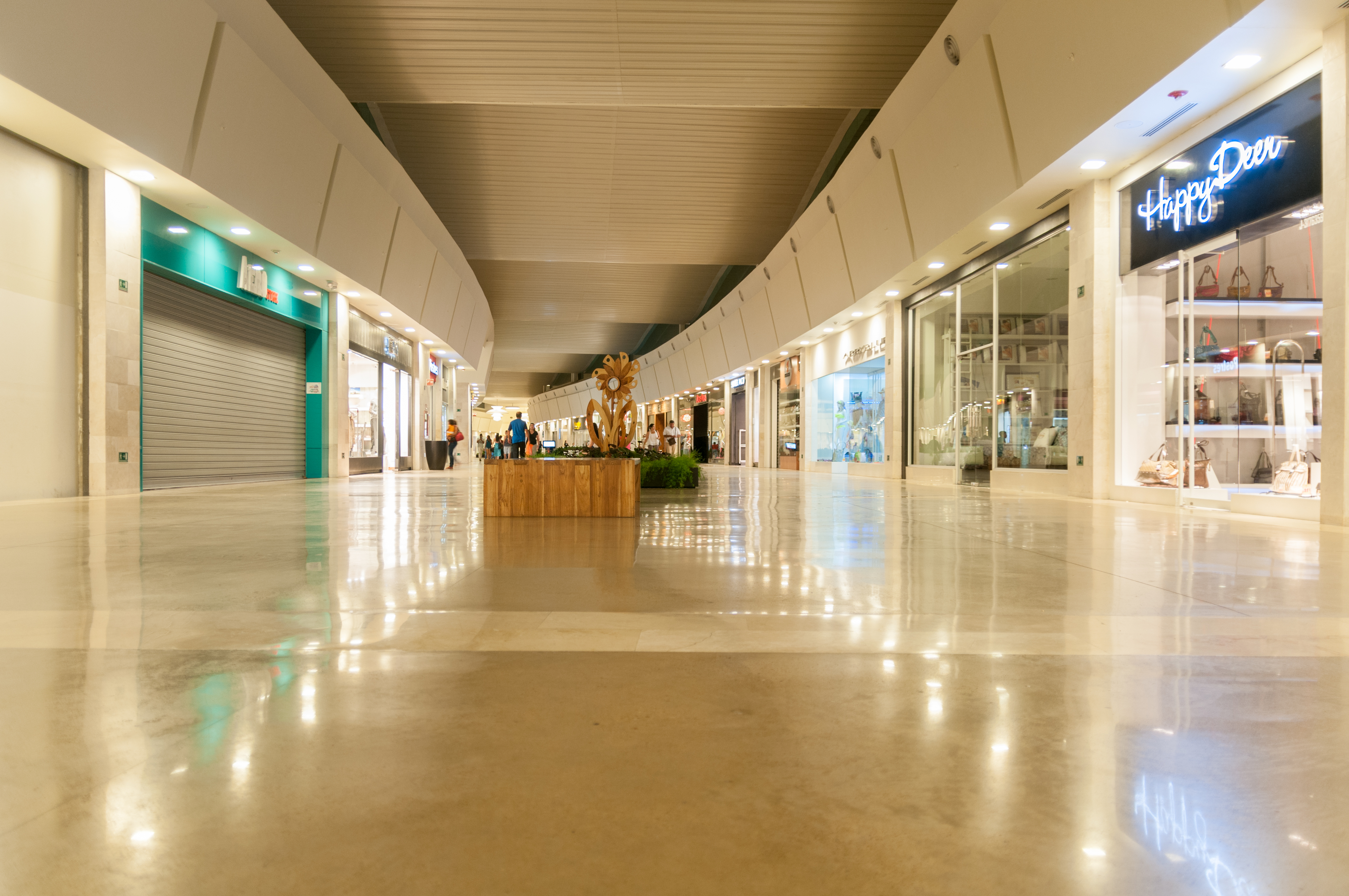 Parque Costa Azul Shopping Center